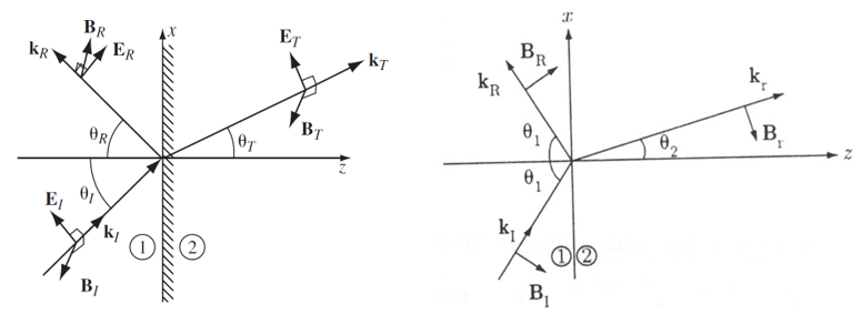 termpapaper2